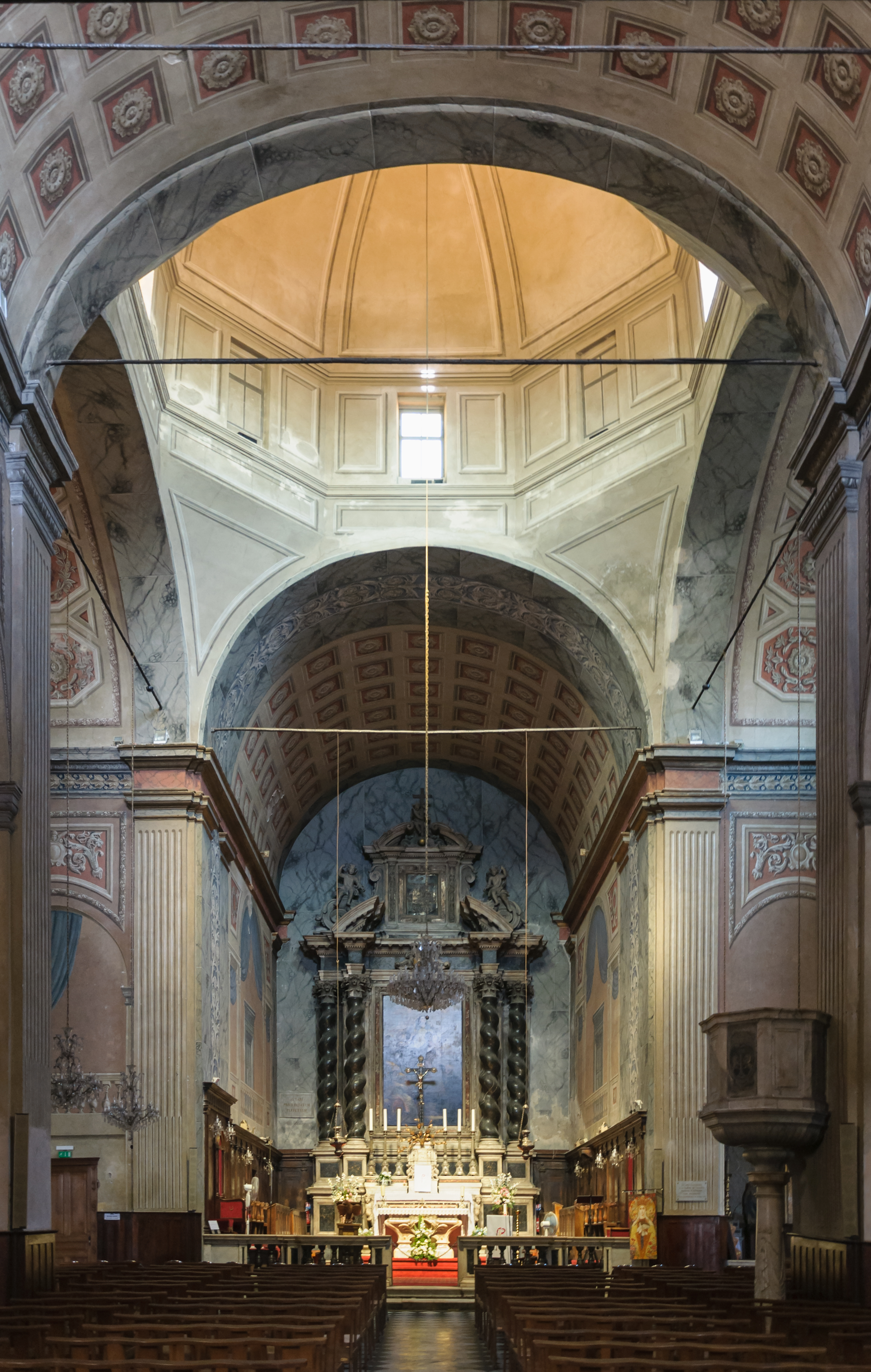 Ajaccio Cathedral, officially the Cathedral of Our Lady of the Assumption of Ajaccio, Corsica, France: view of the nave and of the choir. .